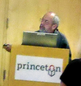 Greg Paul giving a talk in the Princeton Public Library